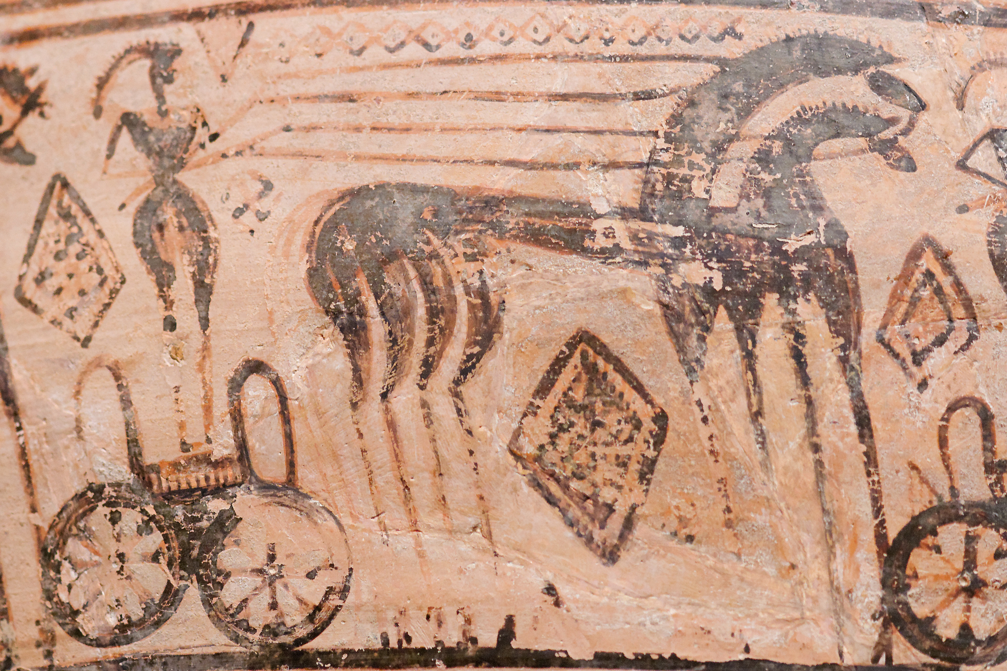 Charioteer, detail from an Attic Geometric krater.